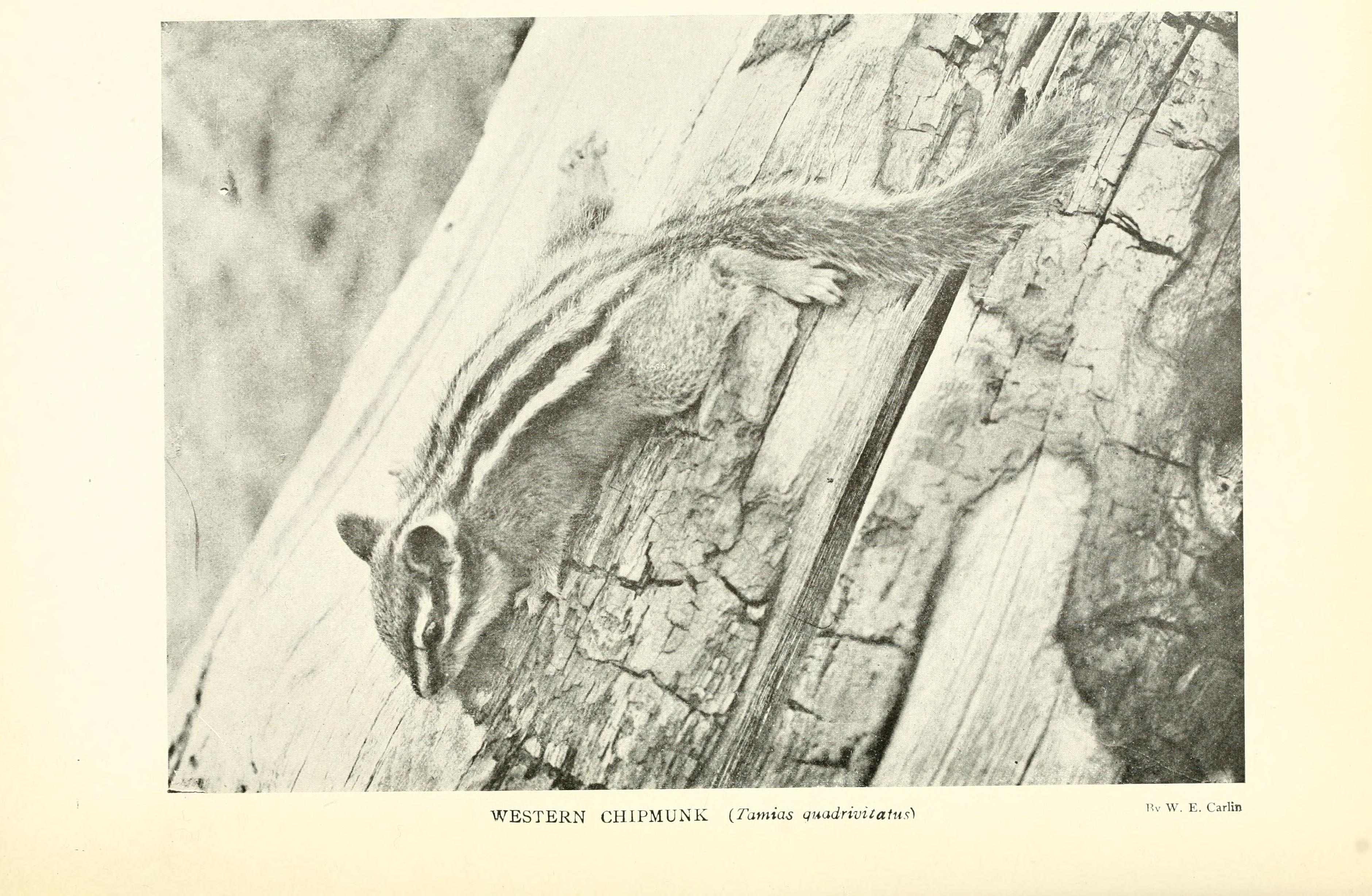 Title: American animals; a popular guide to the mammals of North America north of Mexico, with intimate biographies of the more familiar species Year: 1902 (1900s) Authors: Stone, Witmer, 1866-1939; Cram, William Everett, 1871- Subjects: Mammals Publisher: New York, Doubleday, Page & Company Text Appearing Before Image: ' Text Appearing After Image: '